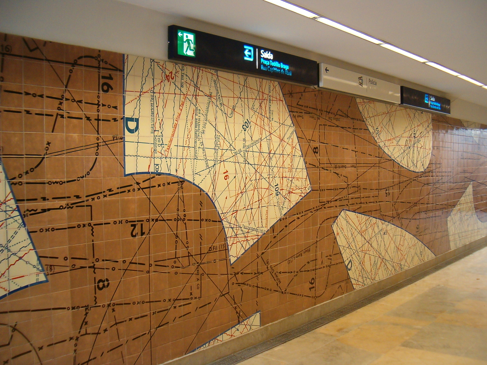 Photo of Alfornelos metro station in Lisbon (entrance to the vestybul); azulejos panel by Ana Vidigal